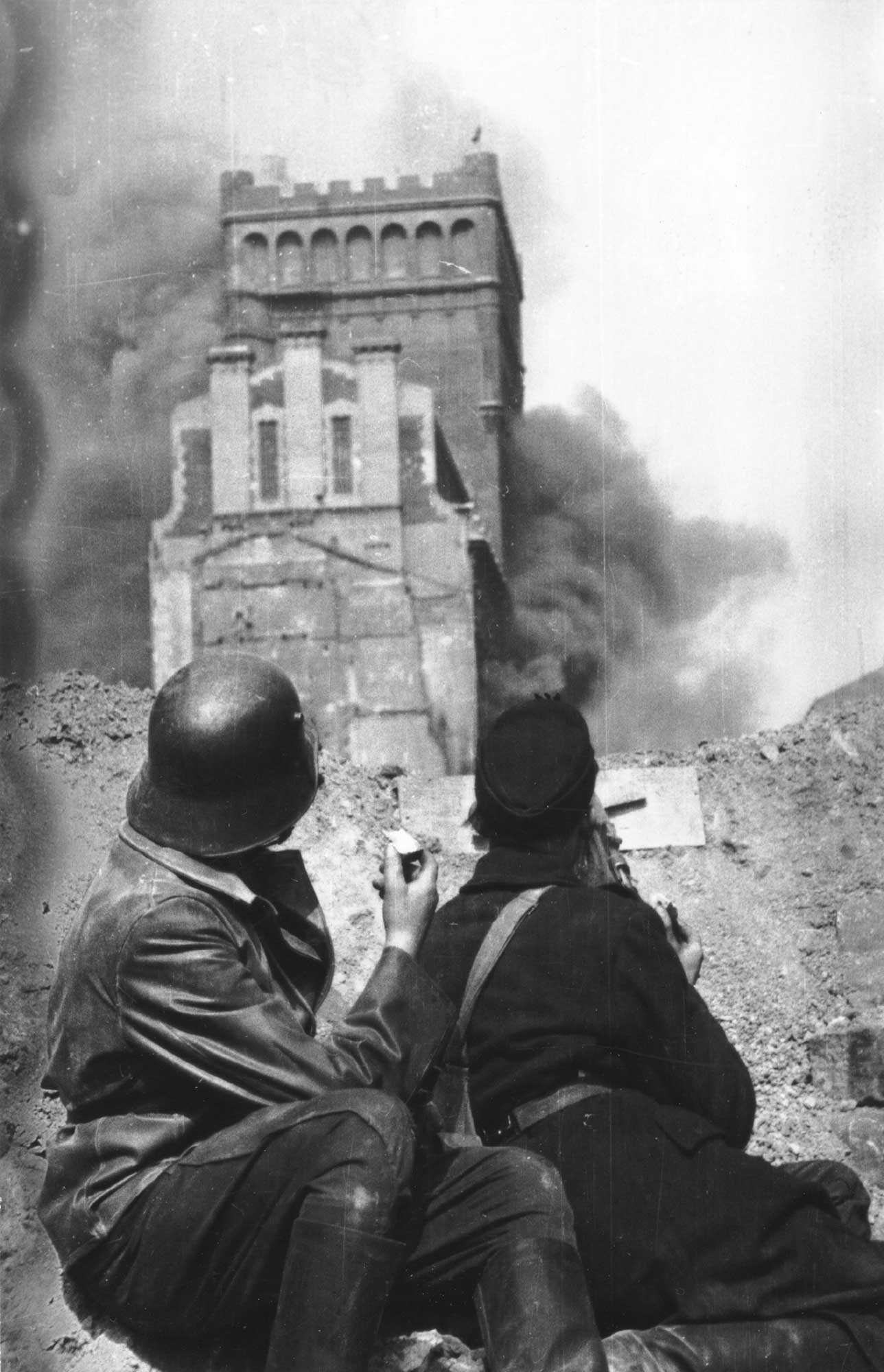 WarsawUprising: Insurgents from "Kiliński" Battalion on barricade at Zielna street watch burning PASTa building at 37/39 Zielna Street.